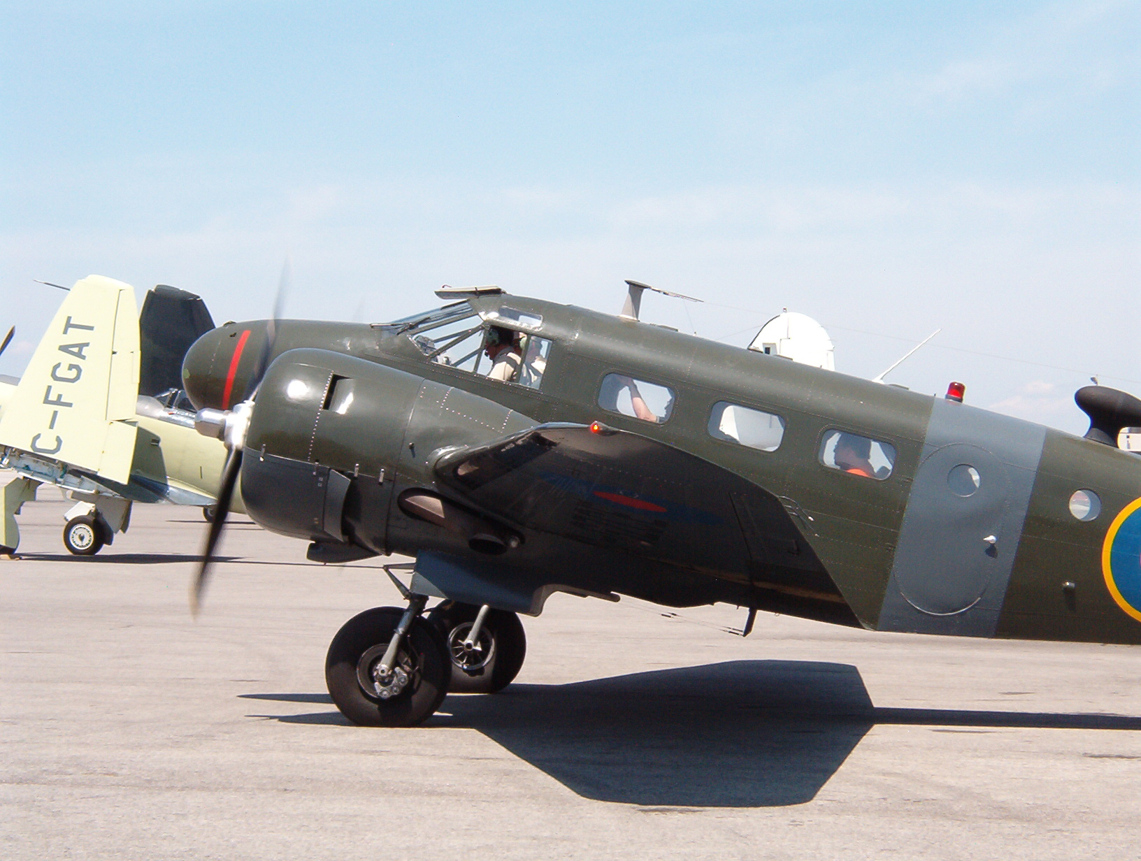 I took this image on Sunday, June 17, 2007 at the Canadian Warplane Heritage Museum in Hamilton, Ontario, Canada. It is for use in the Wikinews reporter attends warplane airshow in Hamilton, Ontario, Canada article.